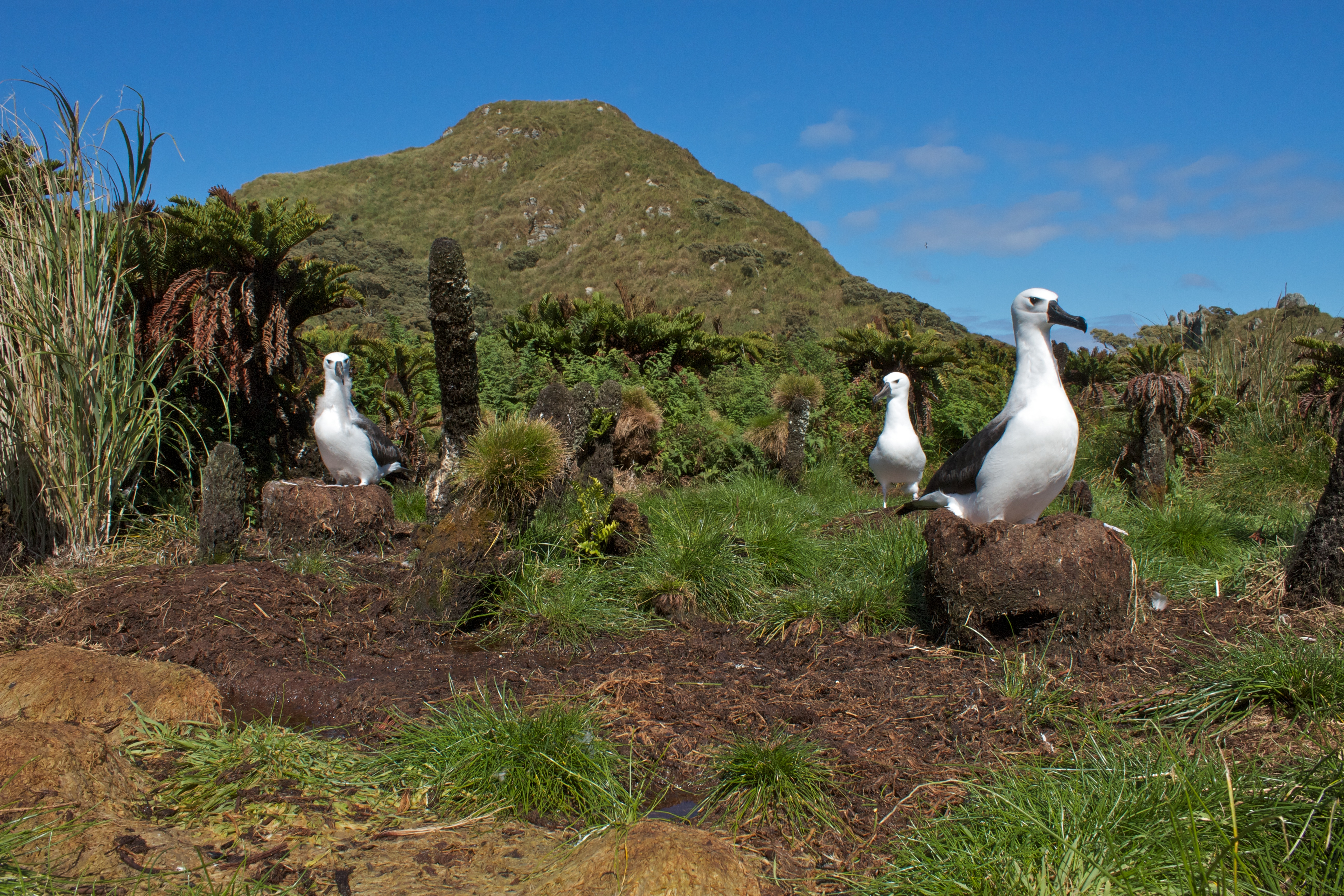 Albatrosses nesting in Fernbush plant communities dominated by the endemic tree-fern Blechnum palmiforme